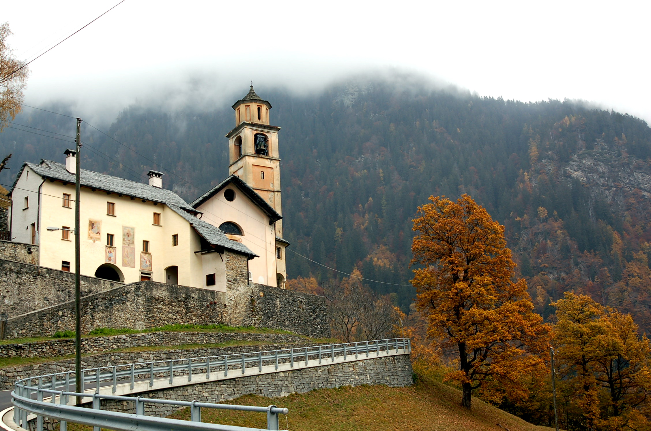 Nearly at the very tops of the mountains in Vallemaggia, Cerentino is the tiny village where my great grandfather left from at the age of 15 to come to California. Cerentino village is in Bosco/Gurin in Ticino, Switzerland